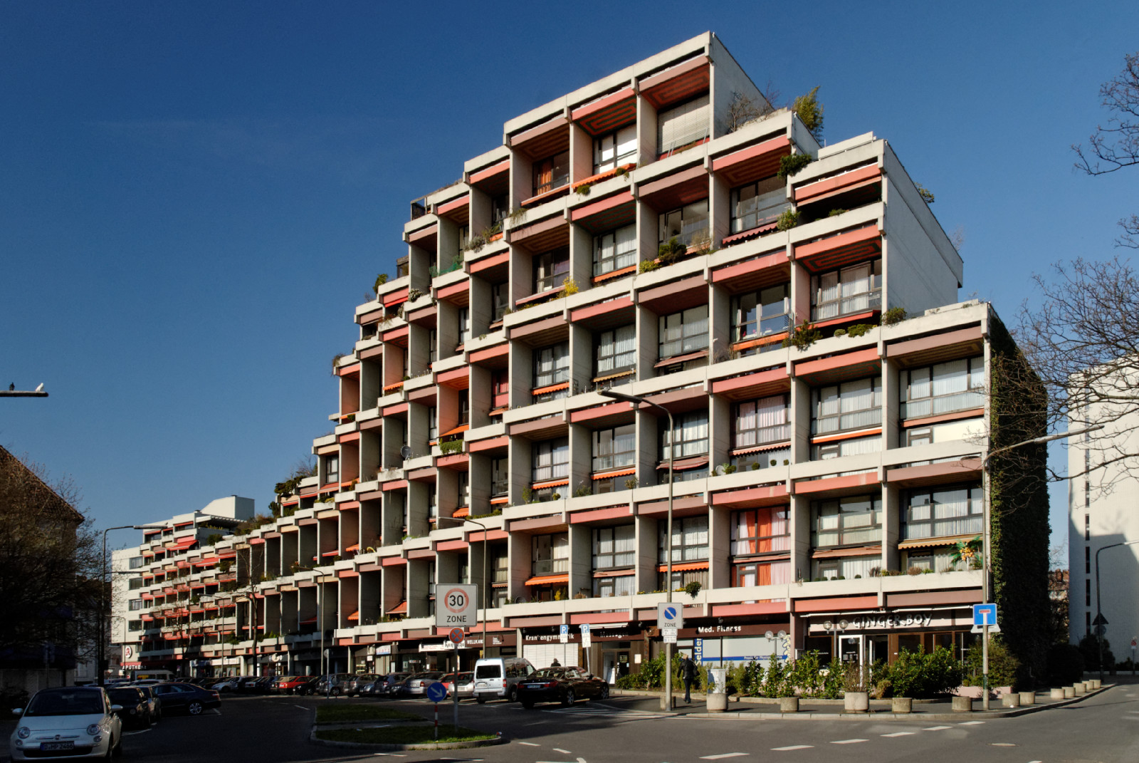 Münsterpark in Düsseldorf-Derendorf, Germany